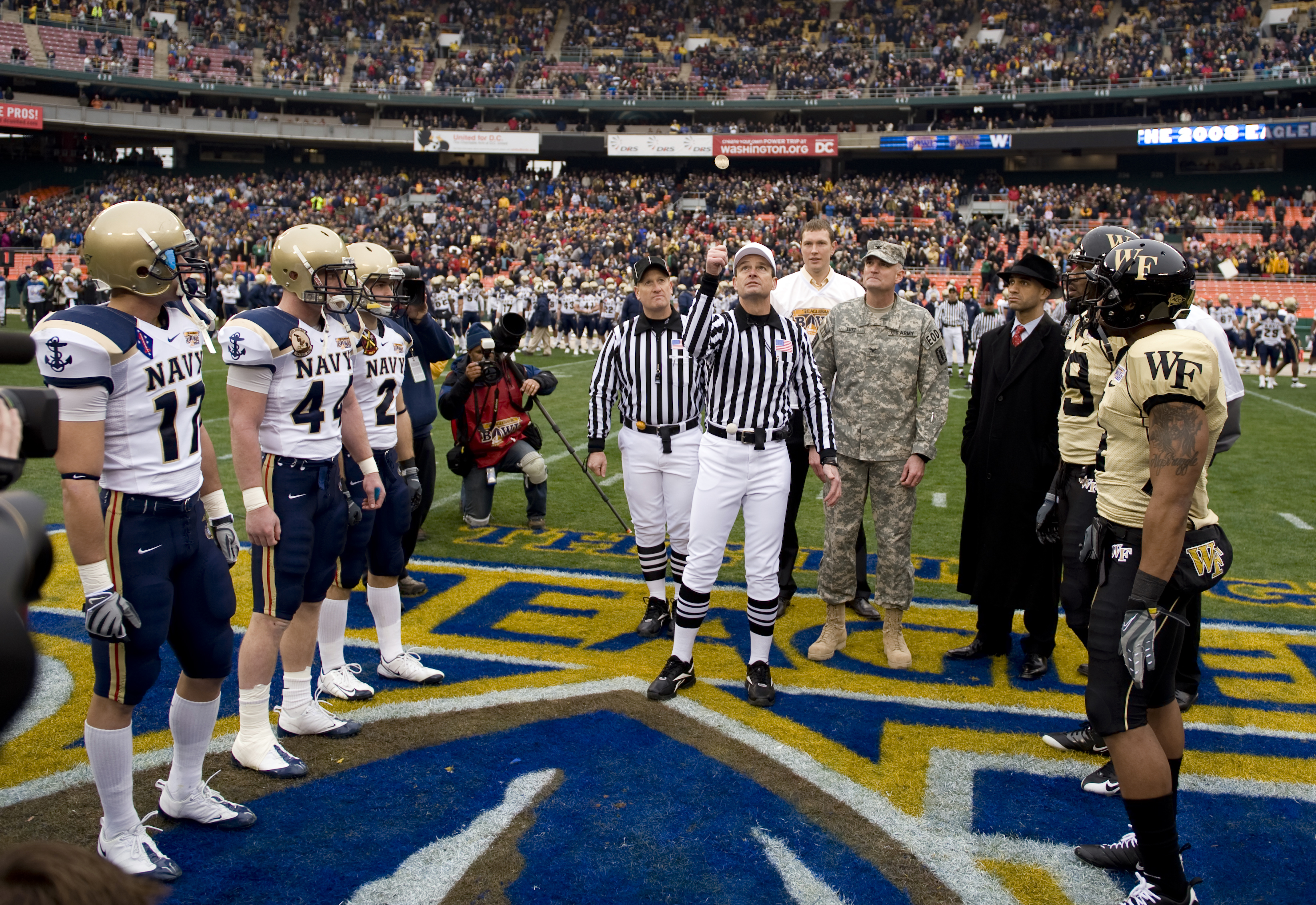 The referee conducts the ceremonial coin toss before the inaugural Eagle Bank Bowl between the Navy Midshipmen and the Wake Forest Demon Deacons.